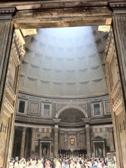 Pantheon